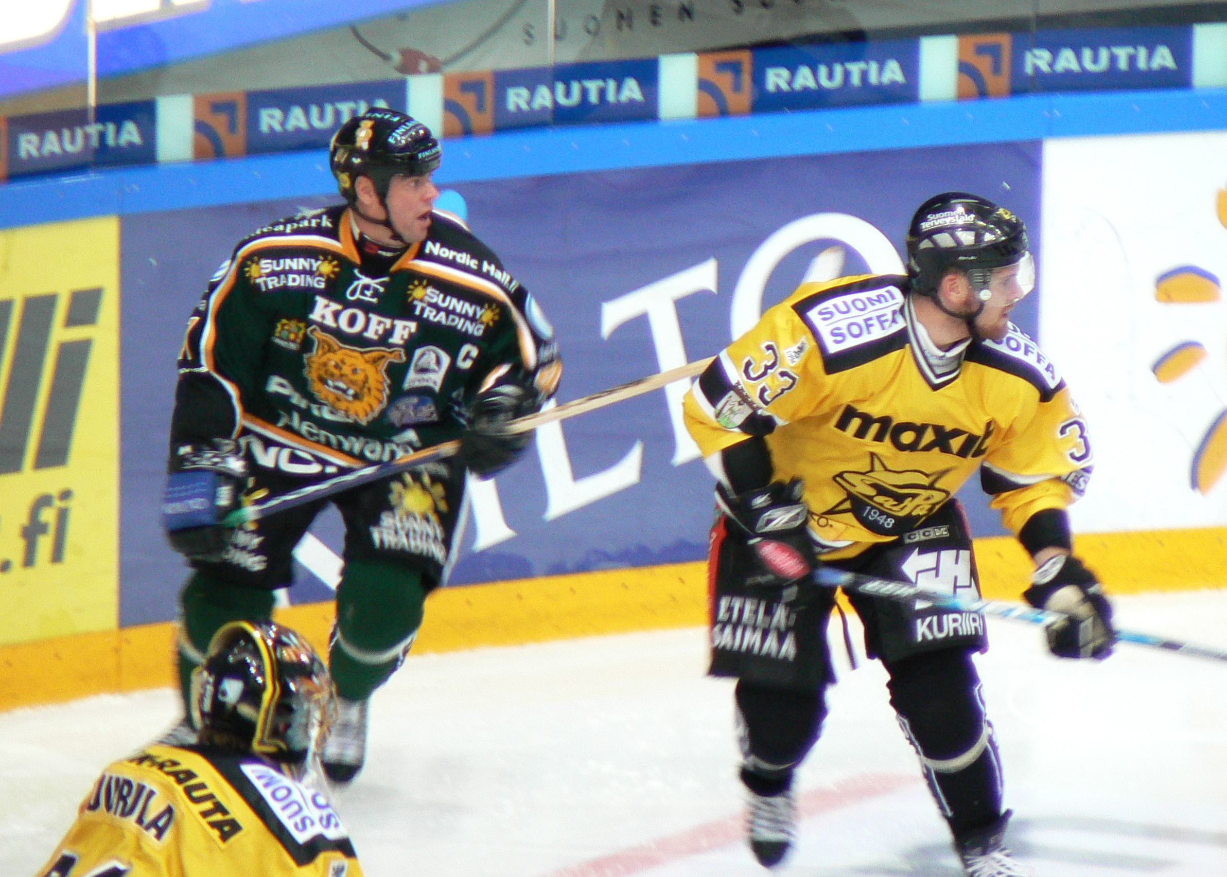 Raimo Helminen of Ilves Tampere and Eetu Holma of SaiPa Lappeenranta (along with SaiPa goalkeeper Joni Puurula) in an SM-liiga match in Tampere in September 2007.